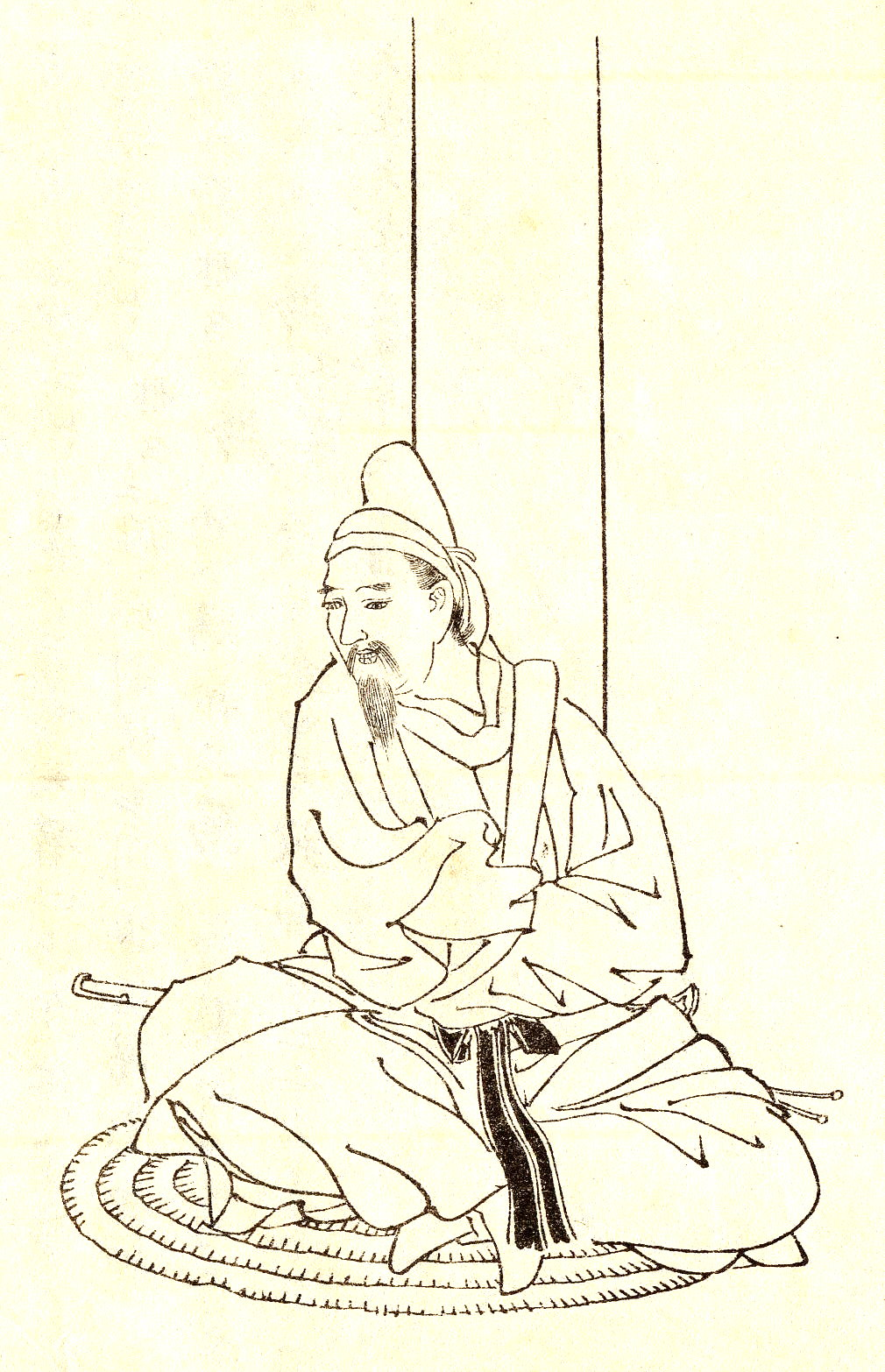 Fujiwara no Tsugutada (藤原継縄) was a Japanese court noble and scholar in Nara period.